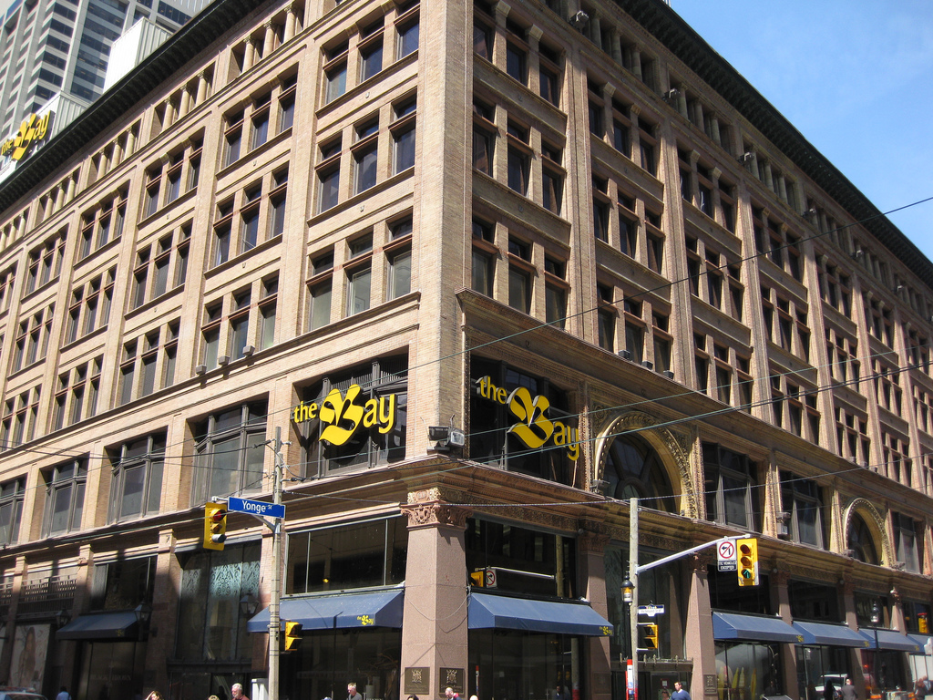 The Bay, Toronto